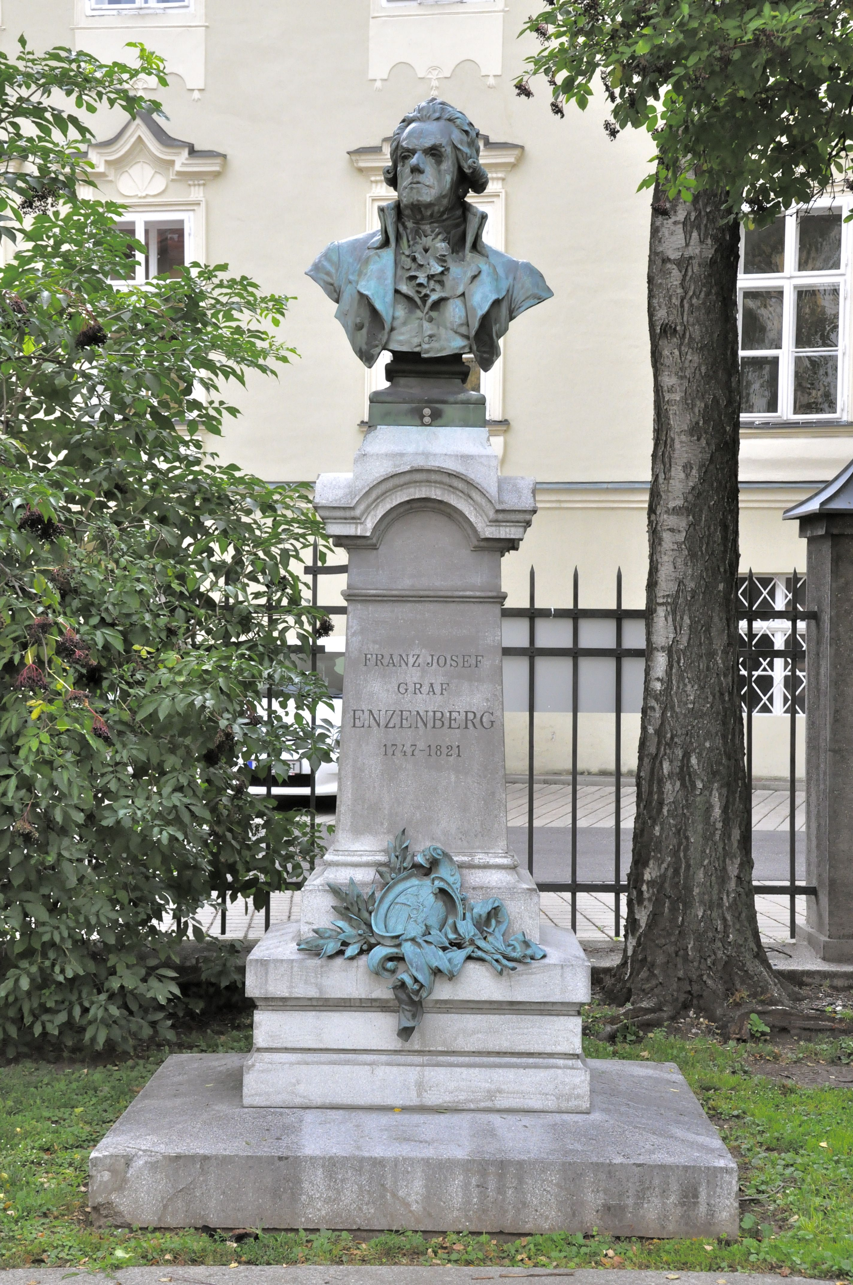 Bronze bust for Franz Josef Count of Enzenberg, created by Jakob Wald in 1894, on Ursulinengasse, inner city, statutary city Klagenfurt, Carinthia, Austria, EU